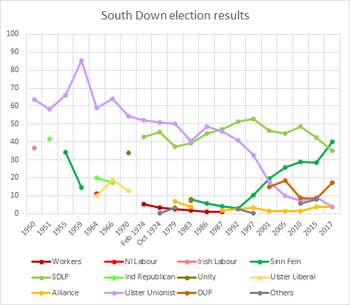 South Down election results